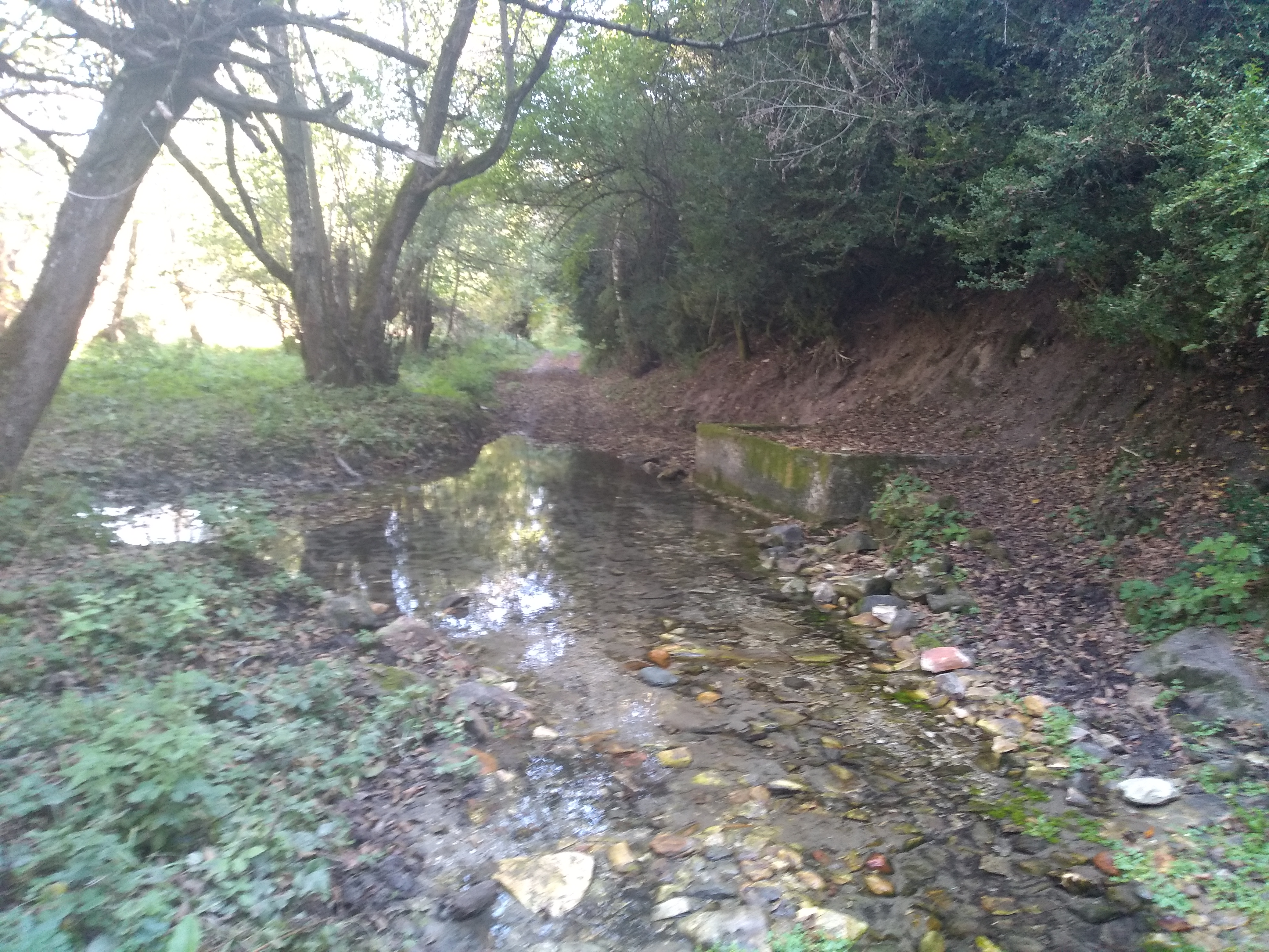 Devichki Livagje (Devich Meadows) water spring by Treska river, near Devich, Macedonia